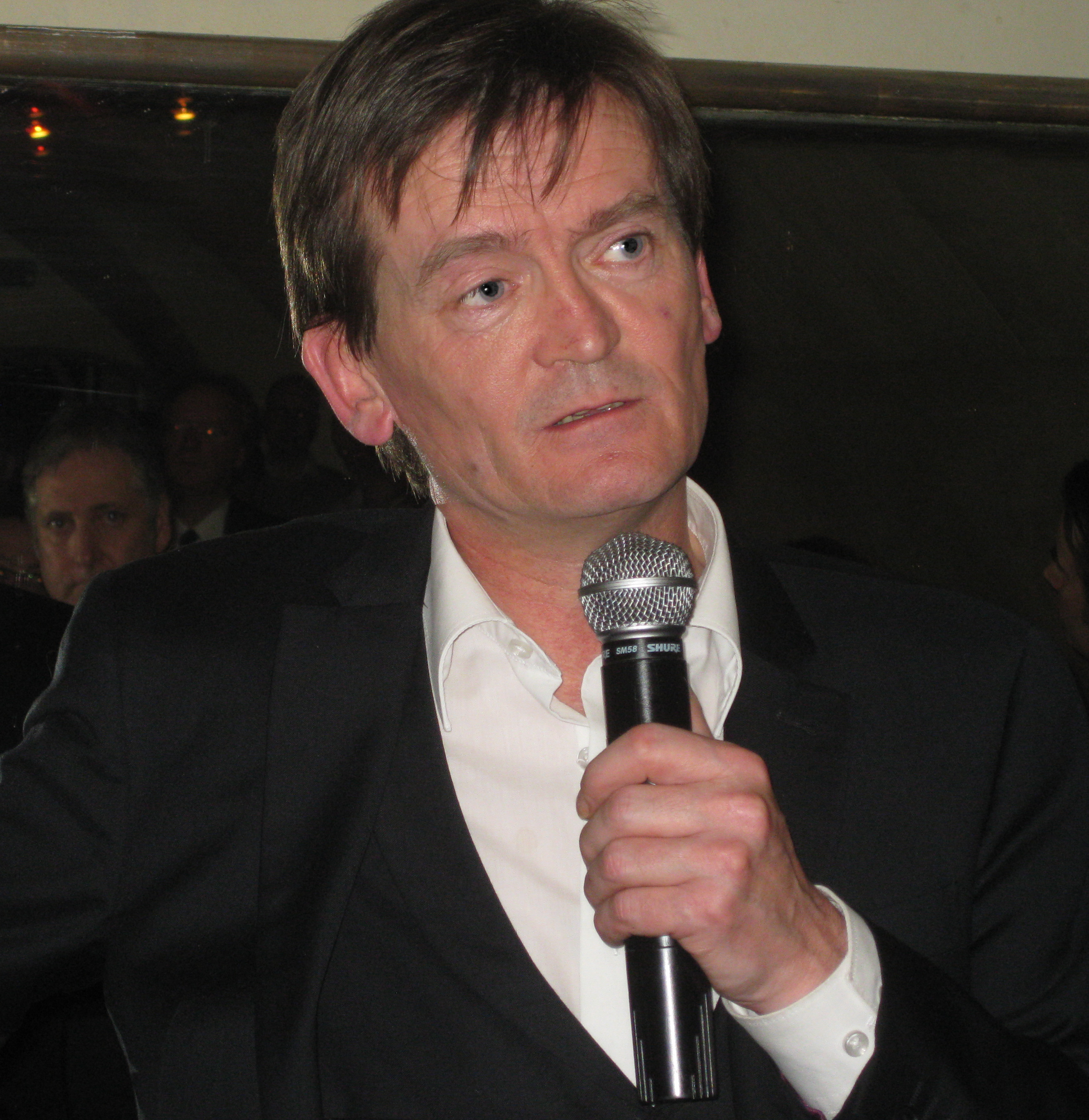 Feargal Sharkey "Feargal gave a talk last night on the state of the music industry at the Mandrake Club. Unfortunately it left me feeling fairly disillusioned...Feargal said much about the people who are losing money due to piracy, but had no ideas to share on how to solve this problem. In Q&A I asked him whether the music industry might be better off focusing on selling scarce items (especially public appearance) rather than abundant items (such as digital artifacts, which can be shared without loss). Hat tip to JP for these ideas, by the way, I got them from him. Feargal ignored the point and said that the primary reason people make music is to make a living. citation from Flickr user Phillie Casablanca[1])